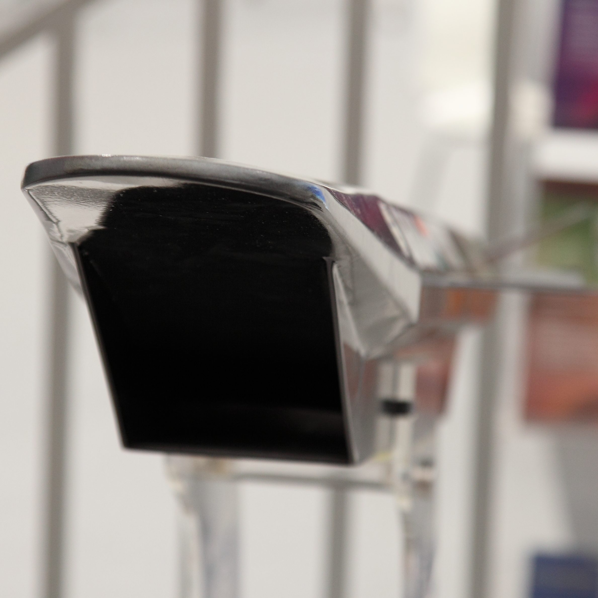 ILA Berlin Air Show 2012; HSTDV: Hypersonic Technology Demonstrator Vehicle technical specifications: flight mach number - 6-7 flight altitude - 30-35 km flight duration - 20 s length - 5.6 m width - 0.8 m weight - 1 t launch option - solid booster salient features: scramjet engine integrated hypercarbon fuel powered hypersonic vehicle can carry a payload of 150 kg development towards futuristic hypersonic cruis missile